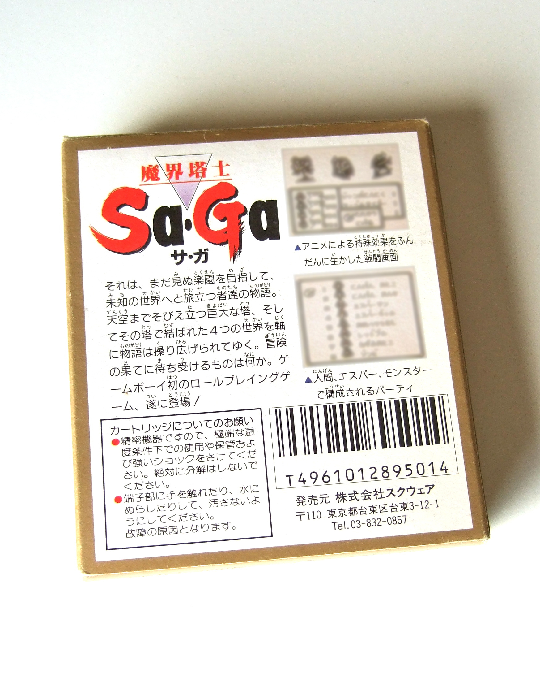 Box Art of the First Saga game on the gameboy / game boy by Square Enix / Squaresoft. Its part of the Saga franchise which consists of Saga Frontier and Unlimited Saga.